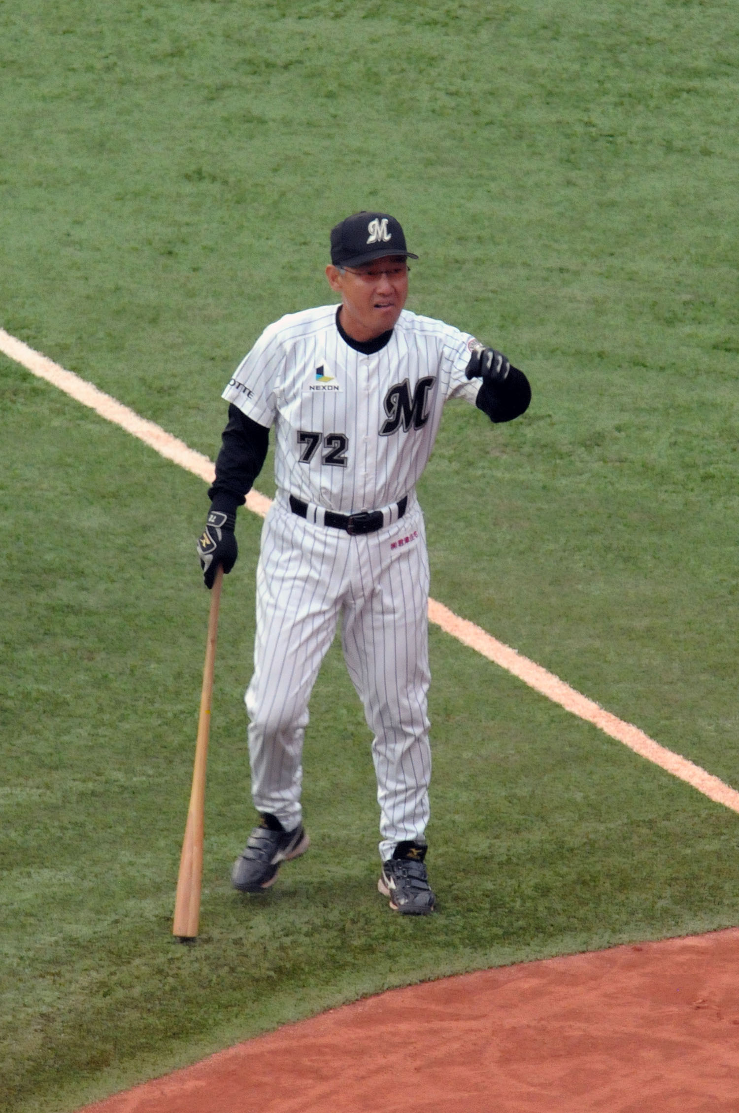 Seiji Kamikawa, coach of the Chiba Lotte Marines, at Chiba Marine Stadium.